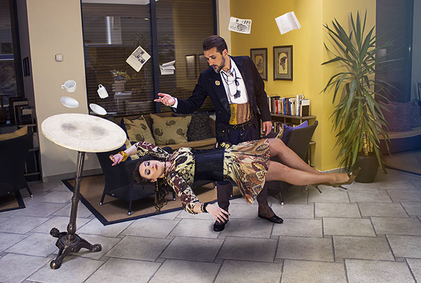 Magic Theater DiArchy